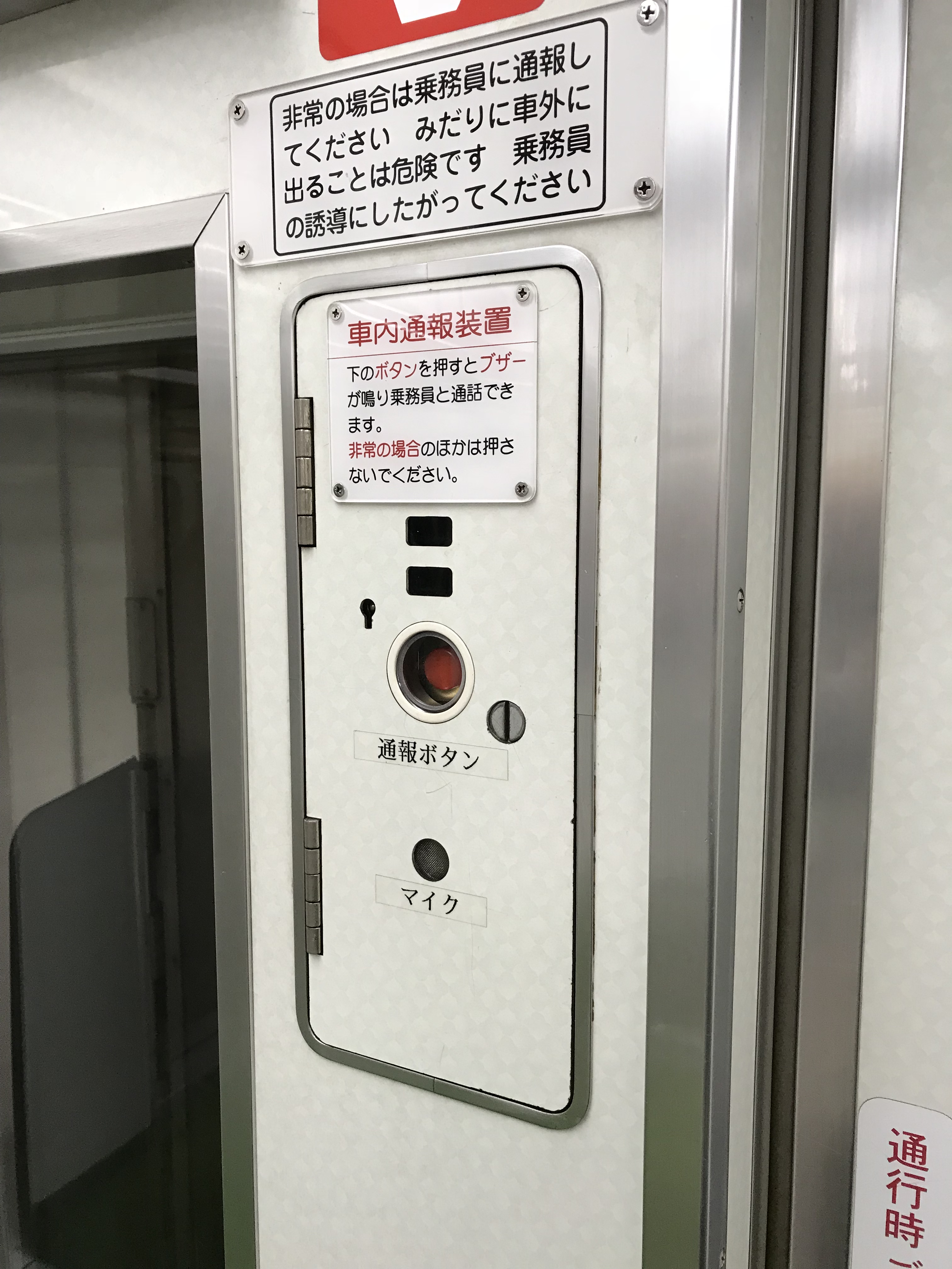 Transceiver to be used in case of emergency to communicate train operators on Kyoto subway 10 series batch 3